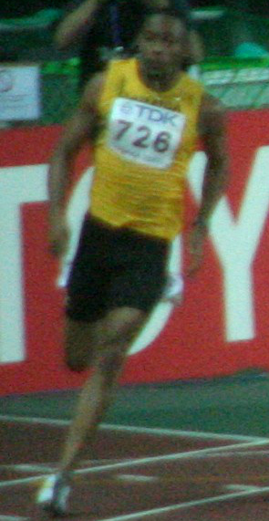 World Athletics Championships 2007 in Osaka - Scene from the final of the men*s 200 metres race: Christopher Williams